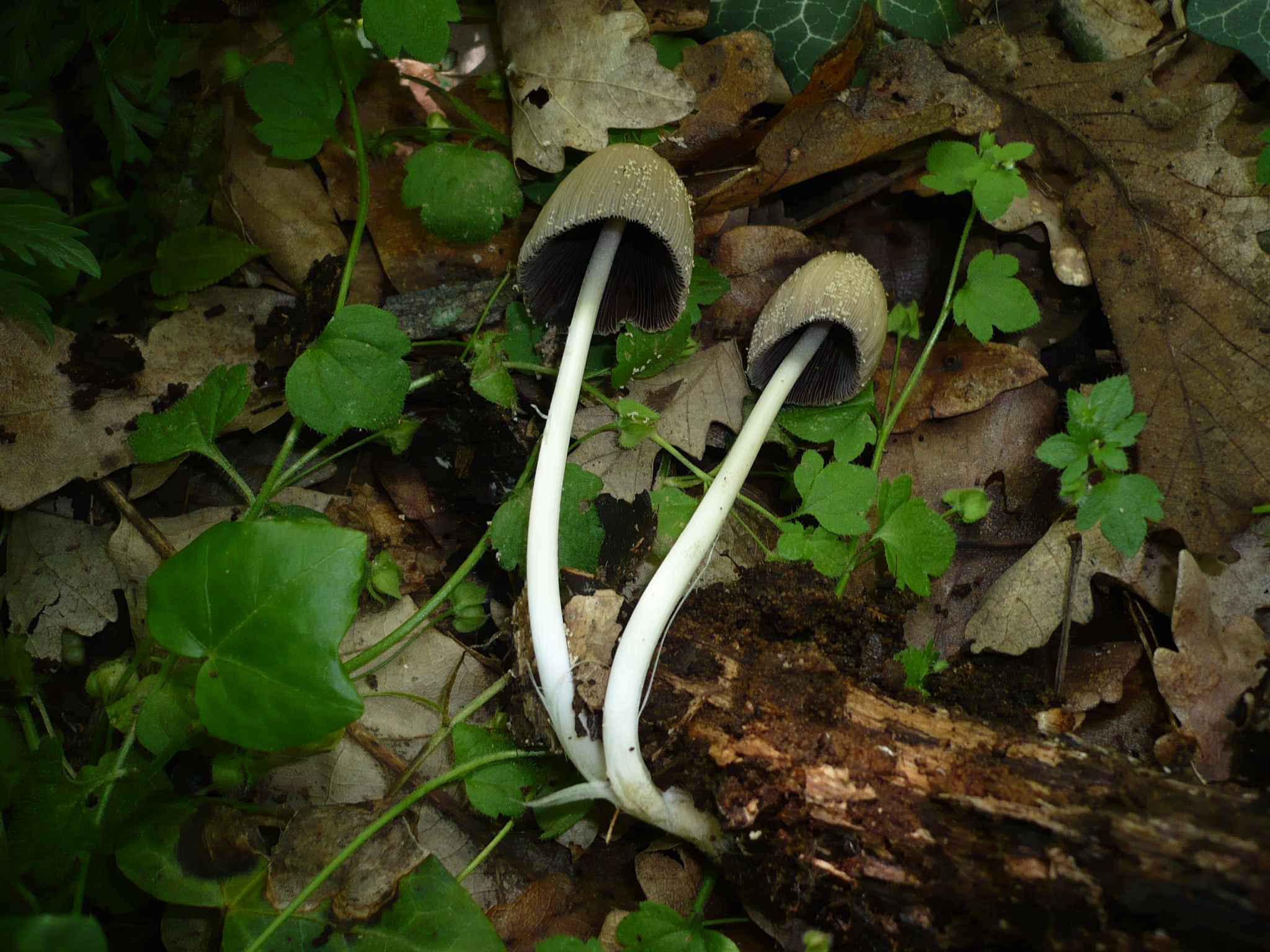 The mushroom Coprinellus xanthothrix. Photographed in Draßburger Kogel, Draßburg, Bezirk Mattersburg, Burgenland, Austria.